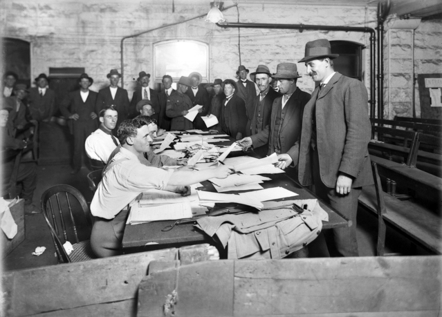 Men at the recruiting office at the Town Hall, Melbourne, to enlist for service in World War I.